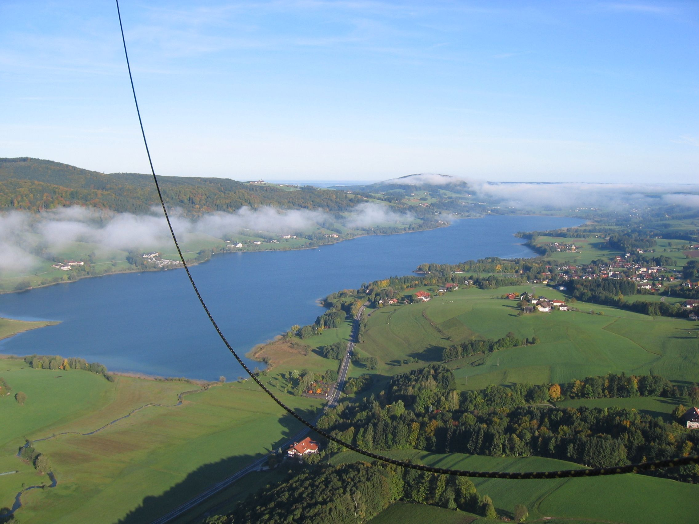 Zeller- or Irrlake